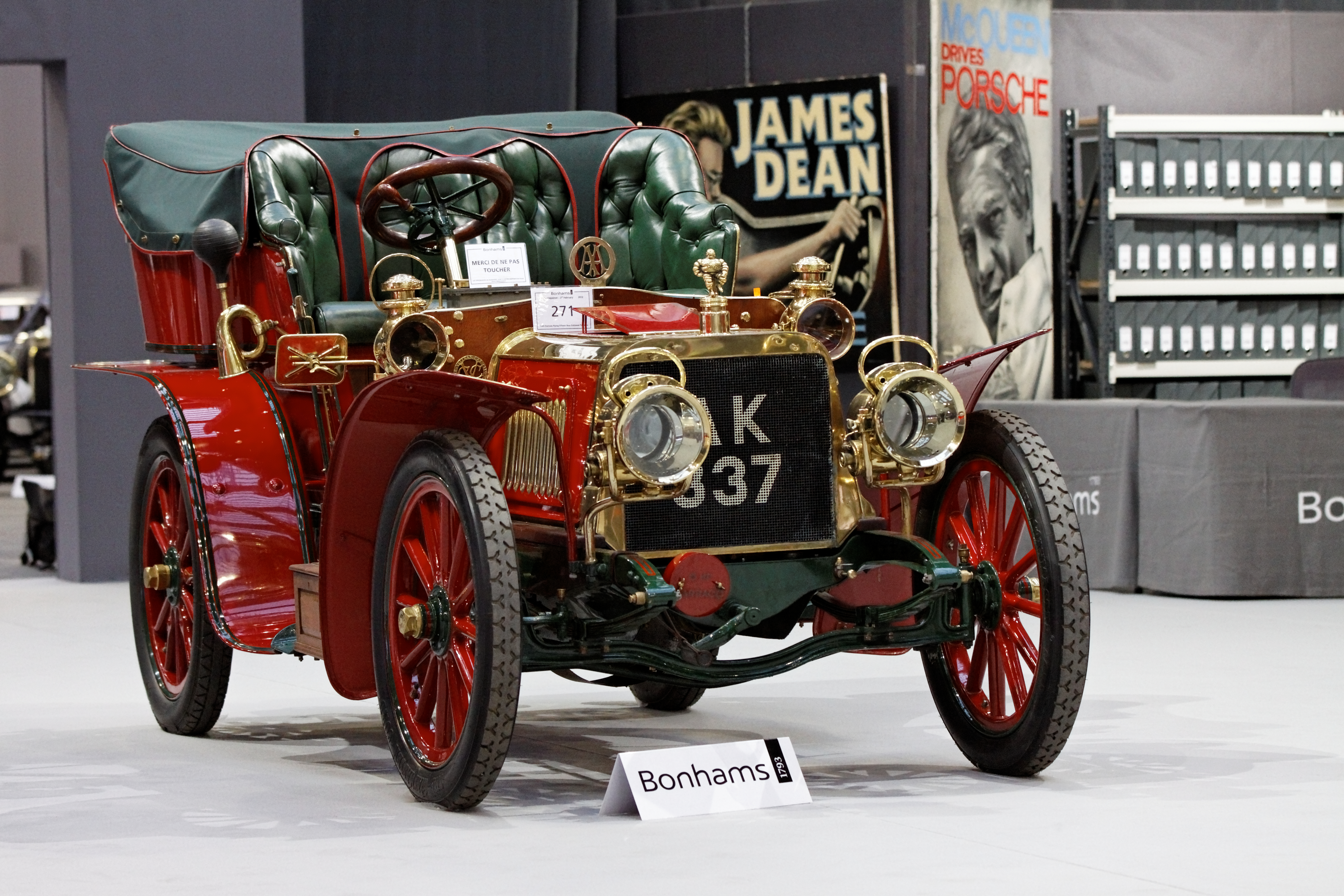 Darracq Flying Fifteen Rear Entrance Tonneau Châssis non. 6913, Moteur,. 7653